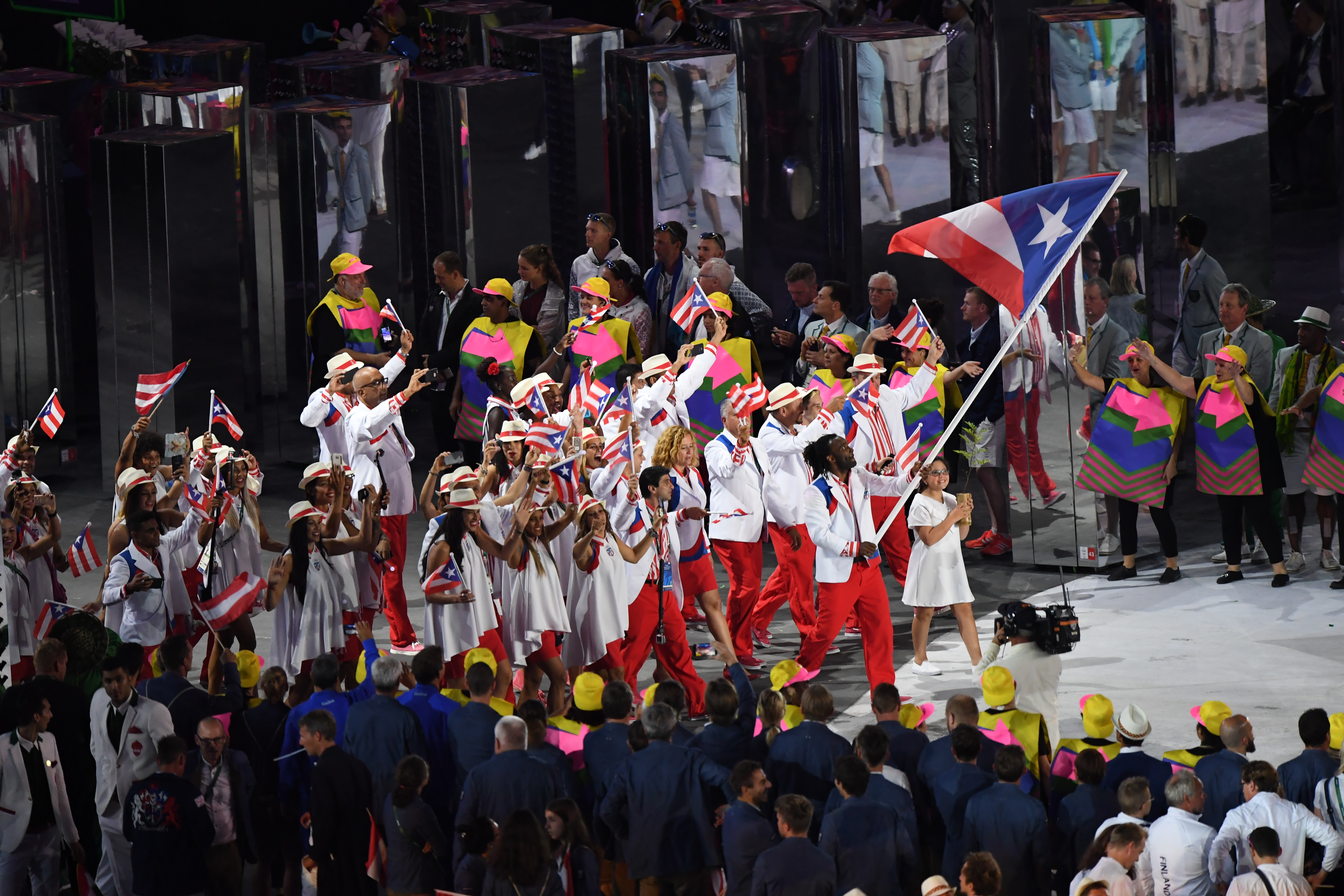 A scene from the Rio 2016 Olympic Games Opening Ceremony on Aug. 5 at Maracana Stadium in Rio de Janeiro, Brazil. U.S. Army photo by Tim Hipps, IMCOM Public Affairs